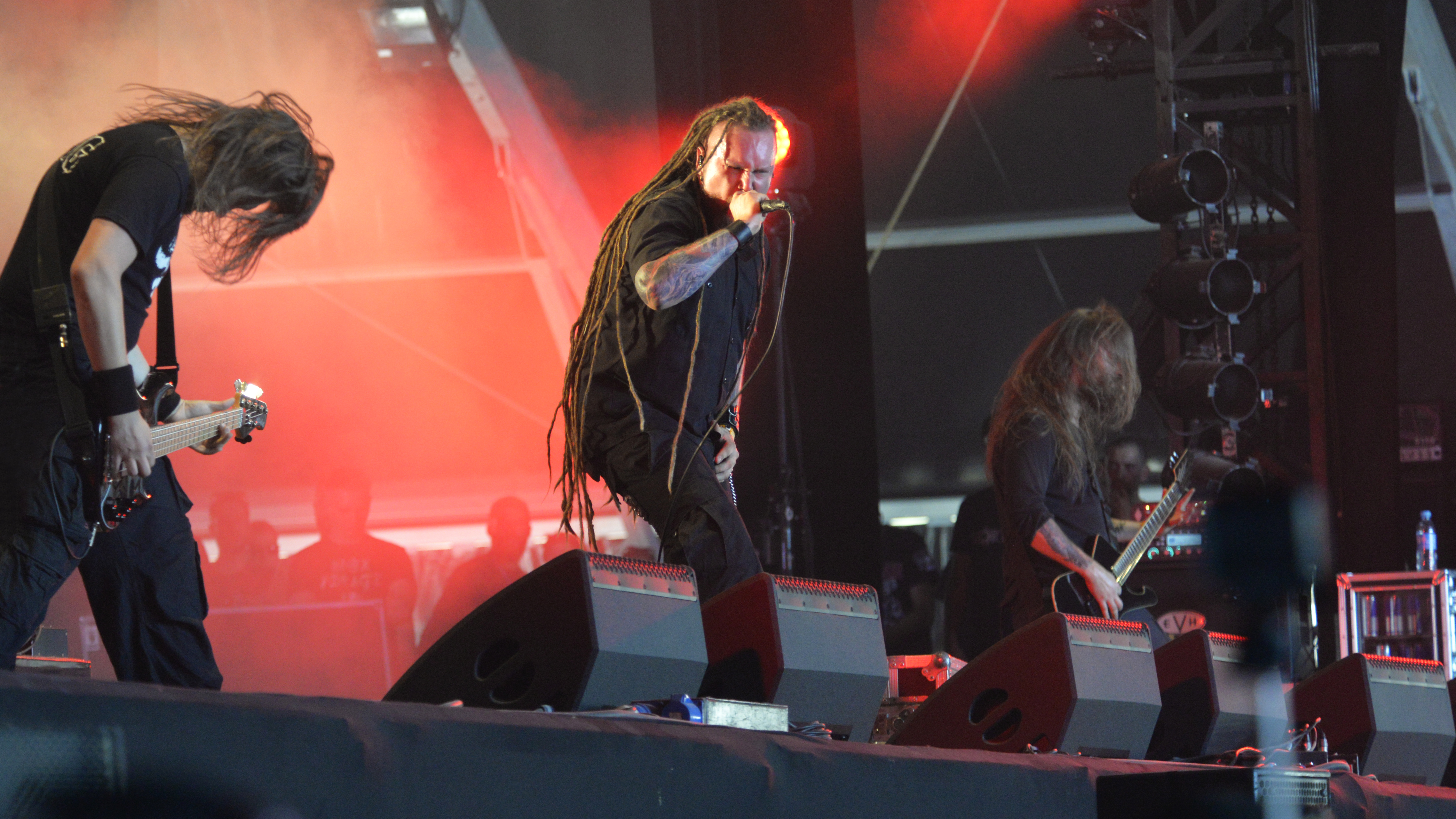 Rafał « Rasta » Piotrowski, singer of polish group Decapitated at Hellfest 2017, France.